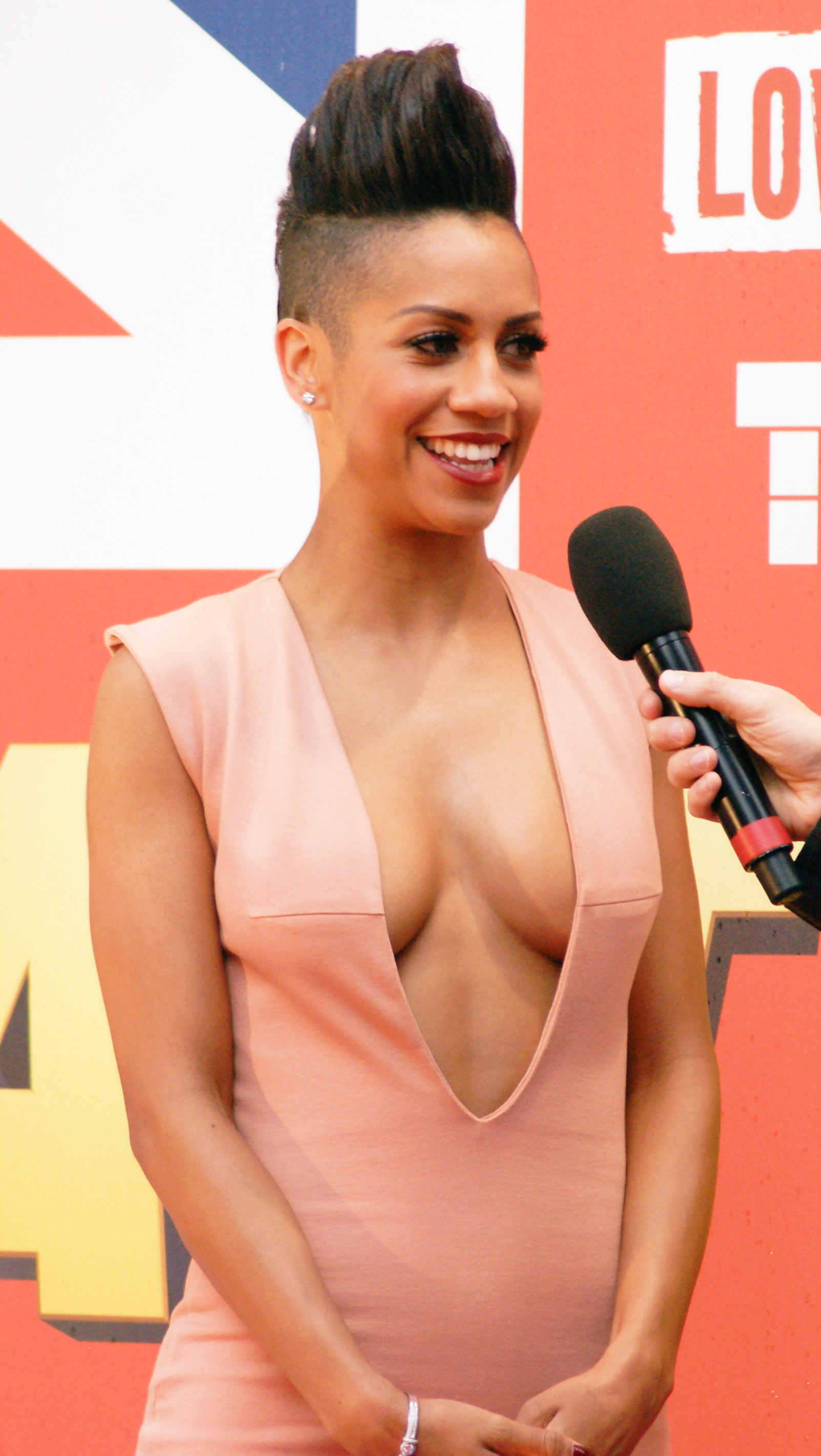 London, UK, 07/06/2012: British actress Dominique Tipper attends the Fast Girls - UK film premiere at the Odeon Leicester Square